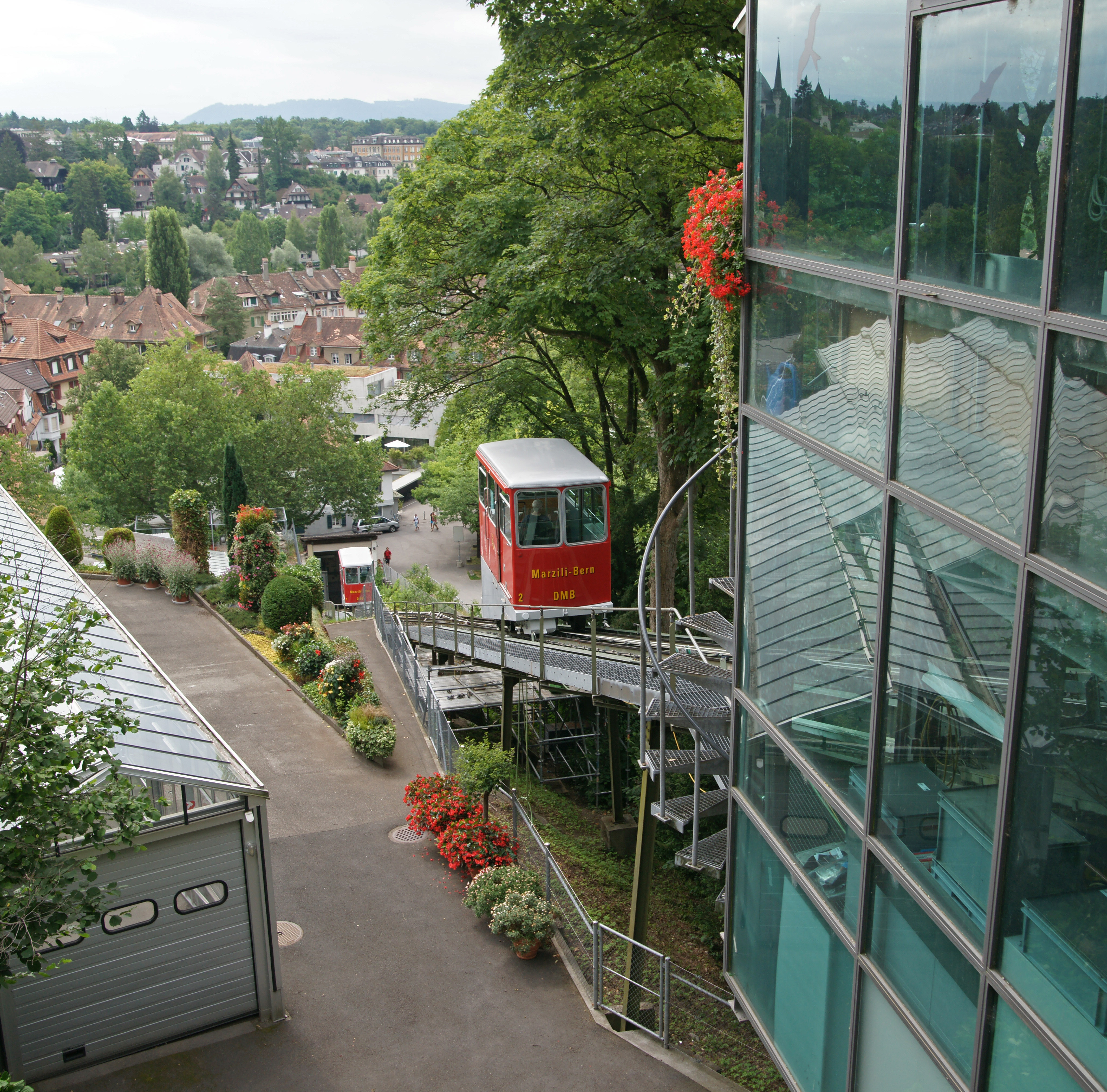 Marzilibahn funicular, Bern, Switzerland; upper station and tracks.